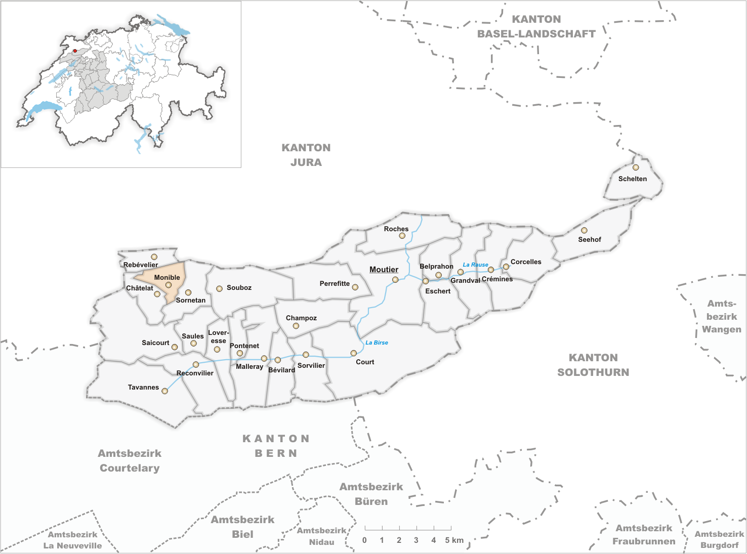 Municipality Monible